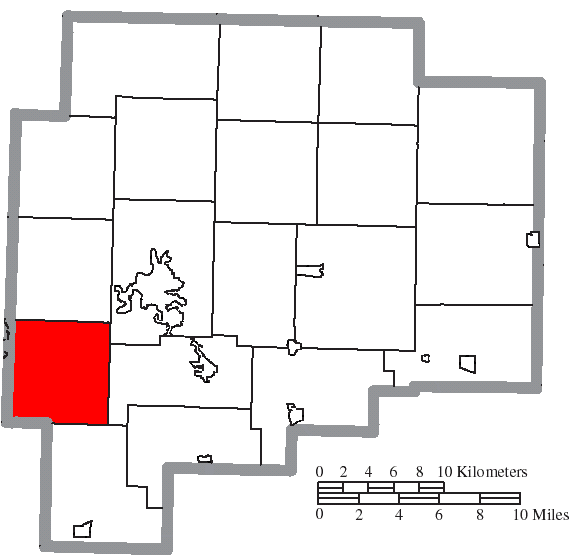 Map of the municipal and township boundaries of Guernsey County, Ohio, United States, as of the 2000 census, with the location of Westland Township highlighted. Township borders are shown only in unincorporated areas in order to differentiate incorporated and unincorporated areas more clearly.